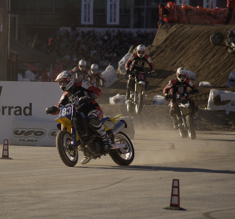 Supermoto at EICMA in 2007. Milan, Italy.